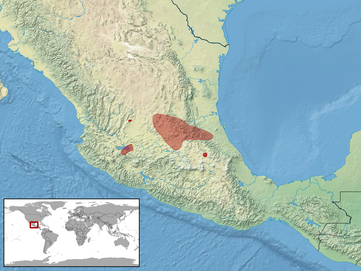 geographic distribution of Crotalus aquilus (Native: Mexico)